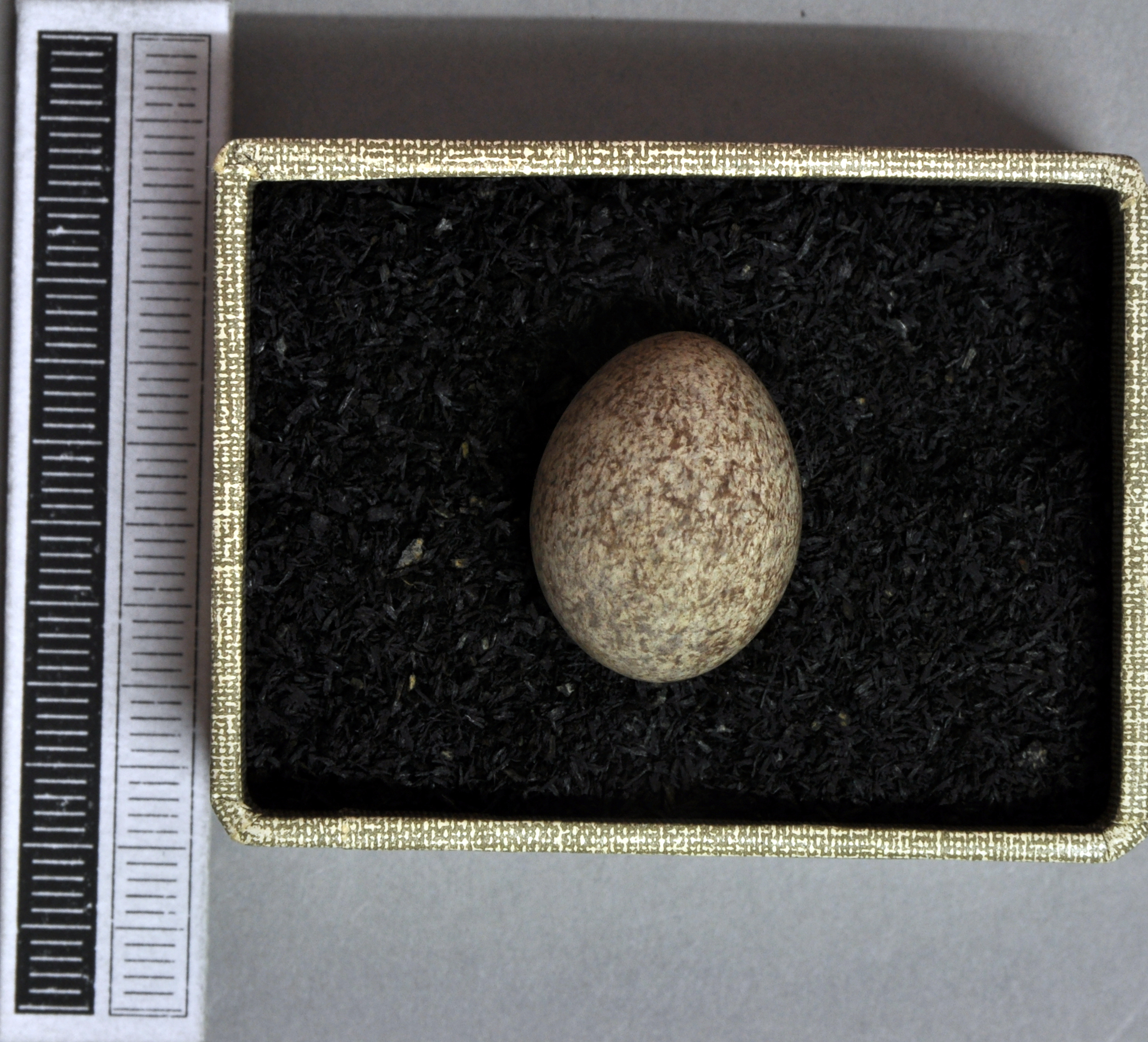 Water pipit Anthus spinoletta , egg, Coll. Museum Wiesbaden